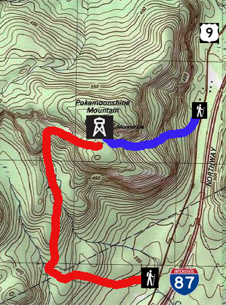 U.S. Geological Survey map of Poke-O-Moonshine Mountain (spelled as Pokamoonshine on map) with informational layers showing recreational facilities on mountain and nearby roads)